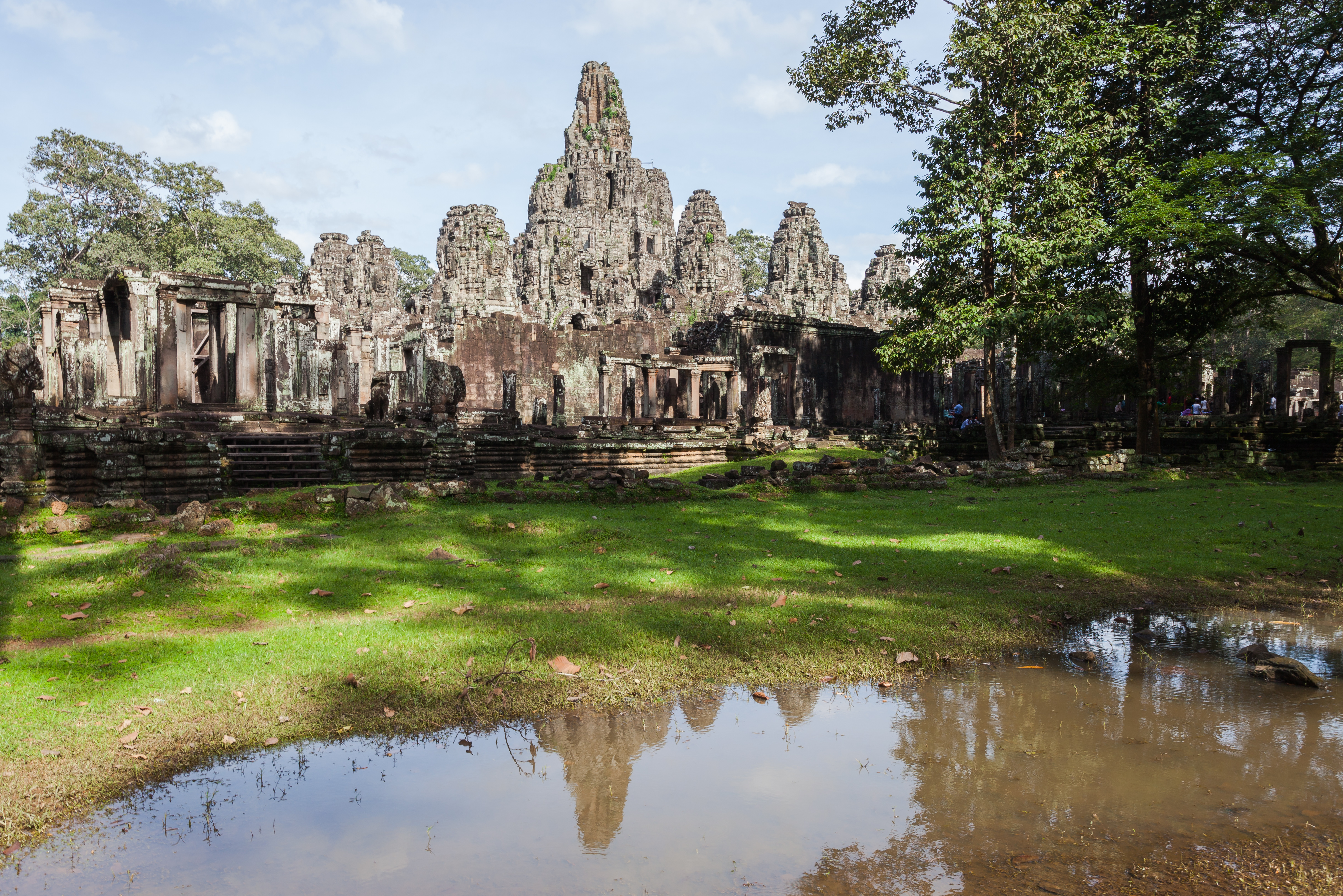 Bayon, Angkor, Cambodia